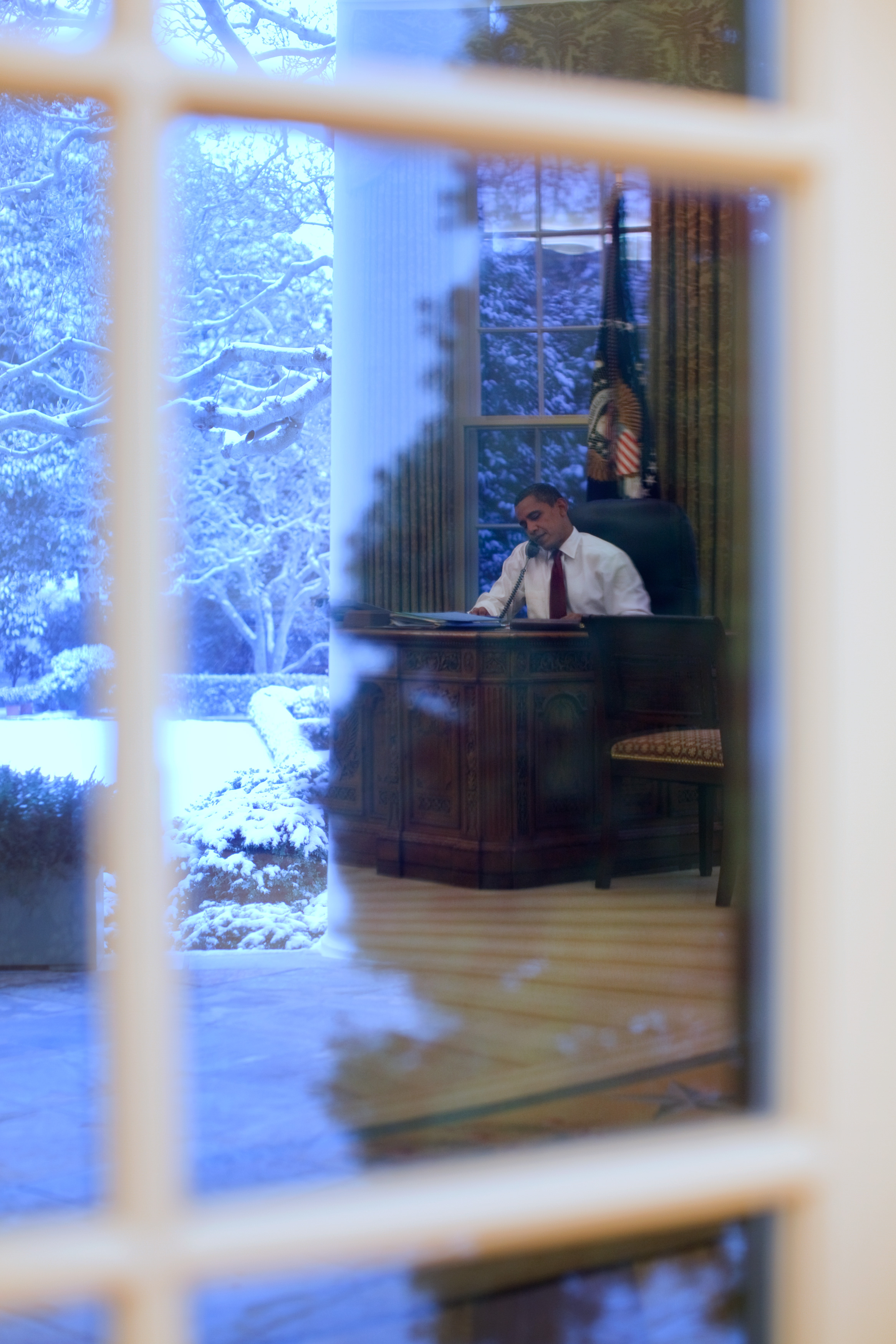 President Barack Obama talks on the phone in the Oval Office 1/27/09. Official White House Photo by Pete Souza.